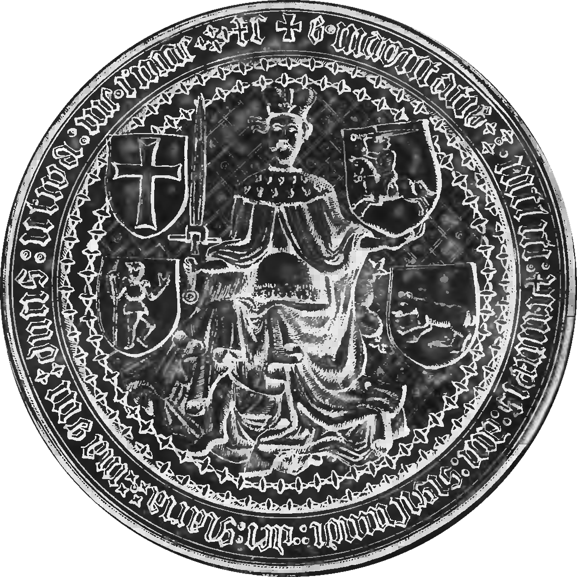 Seal of Sigismund Great Duke of Lithuania 1436